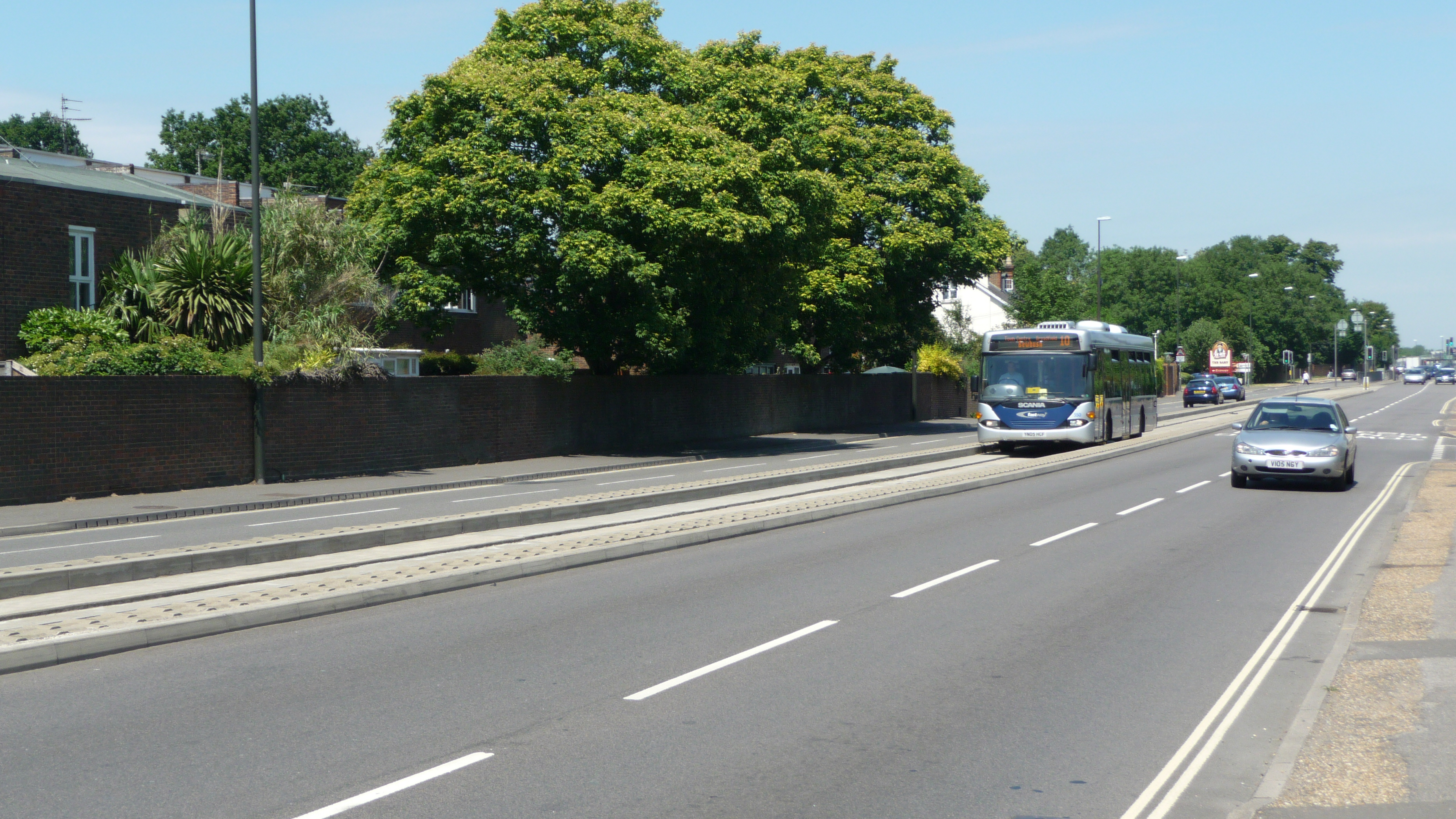 Metrobus 550 (YN05 HCF), a Scania OmniCity, on the A23 London Road, Crawley, West Sussex, on route 10. This is a section of guided busway, which leads to a bus lane over the middle of the busy Tushmore Roundabout, so buses can bypass traffic queues.